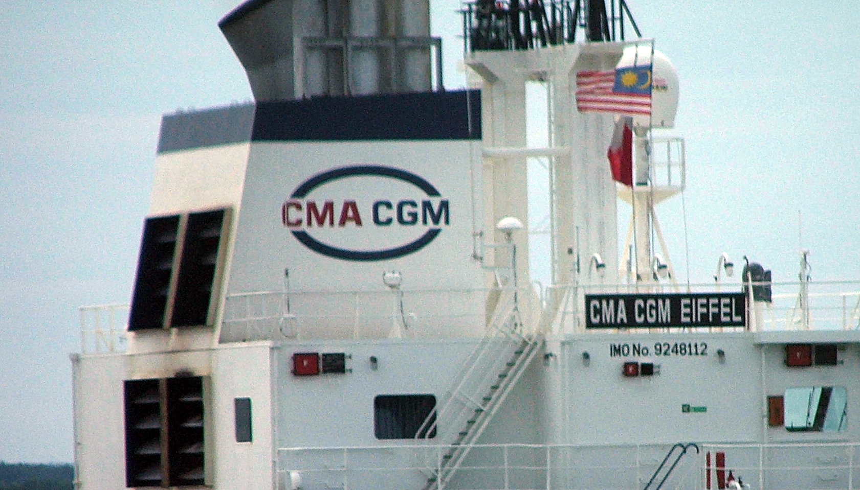 Funnel mark of shipping company CMA CGM